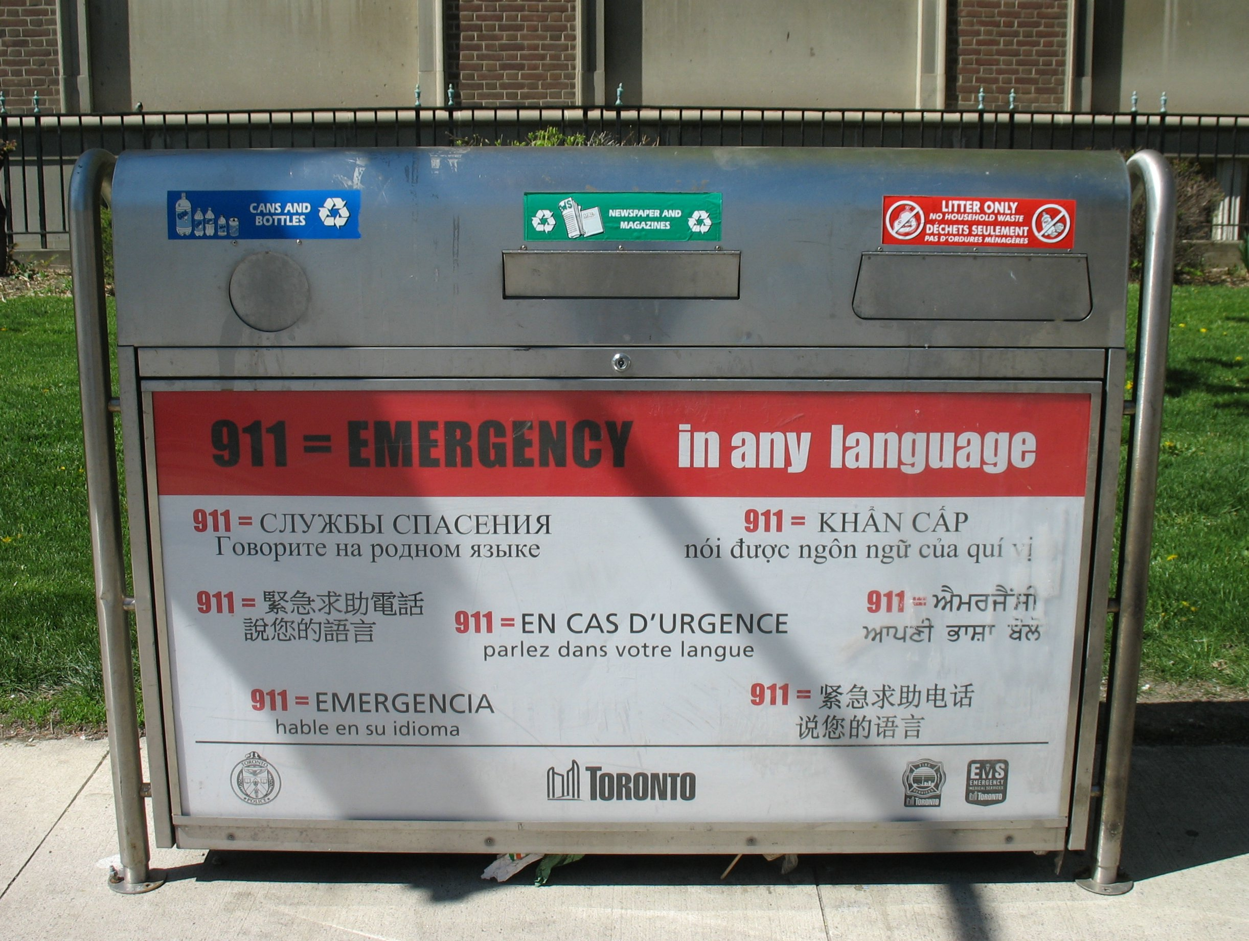 Tripartite rubbish bin from Toronto, Ontario, taken by uploader on May 2006.